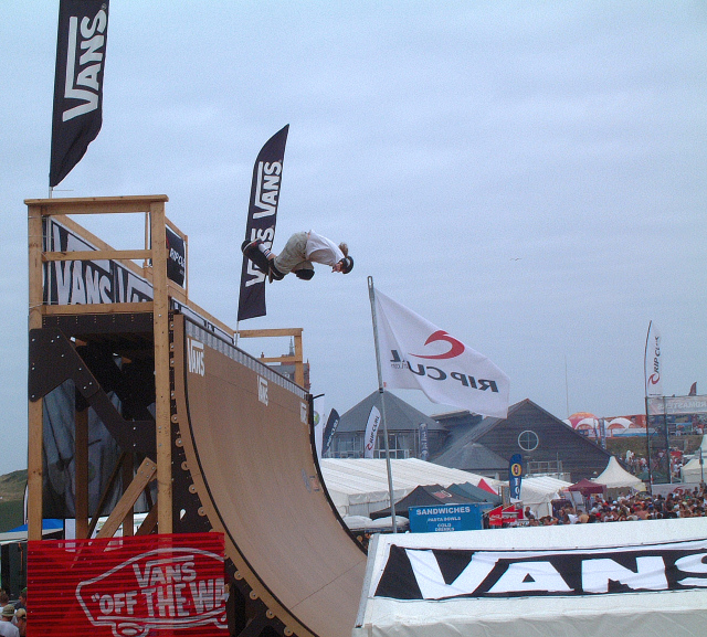 Sean Goff at Fistral Beach 2006. British skater Sean Goff gets airborne at the 2006 Vans Summer Session Vert Comp at Fistral Beach, Newquay.